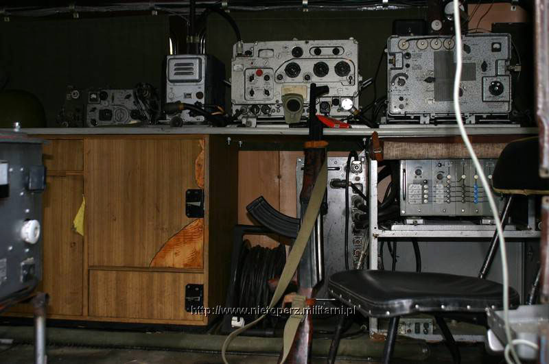 Military (airborne) radio station – model version R-115ZMT – (interior view, radio operator´s position 1with R-130 and R-107 as well as position 2 with R-123Z and R-802M2 on military vehicle UAZ-452, Polish Army (special version: airborne troops).